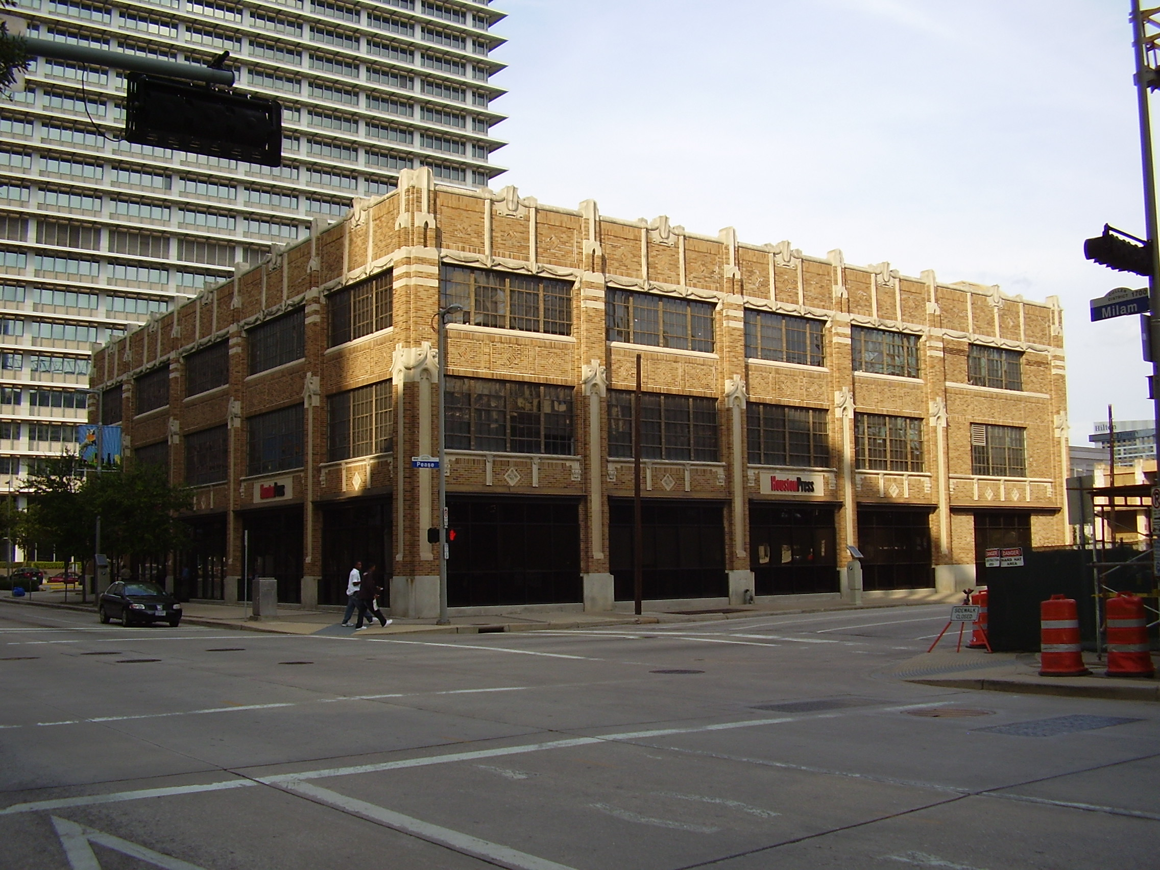 Houston Press headquarters in Downtown Houston - Suite 100, 1621 Milam Street